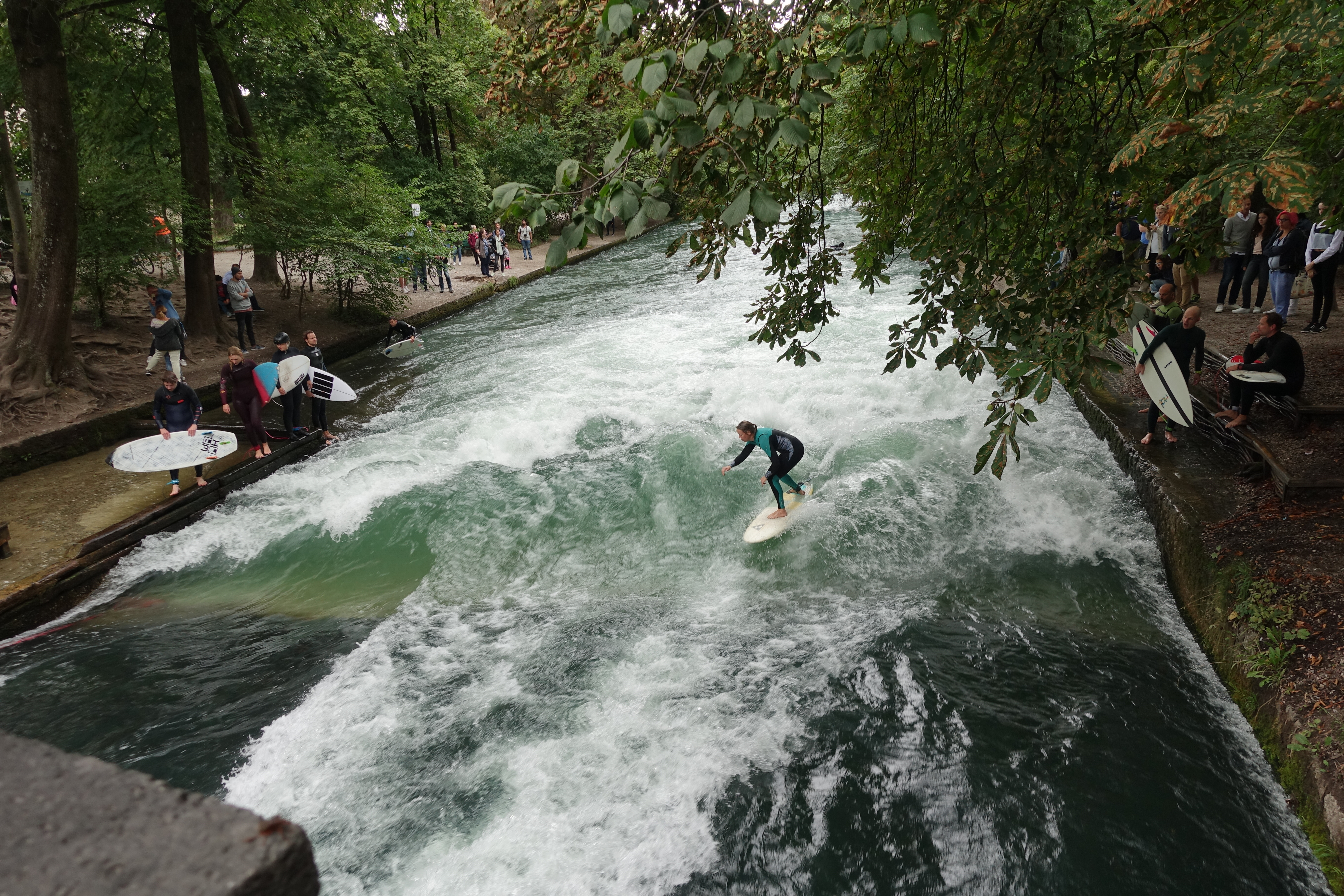 Eisbach surfing, Munich, Germany